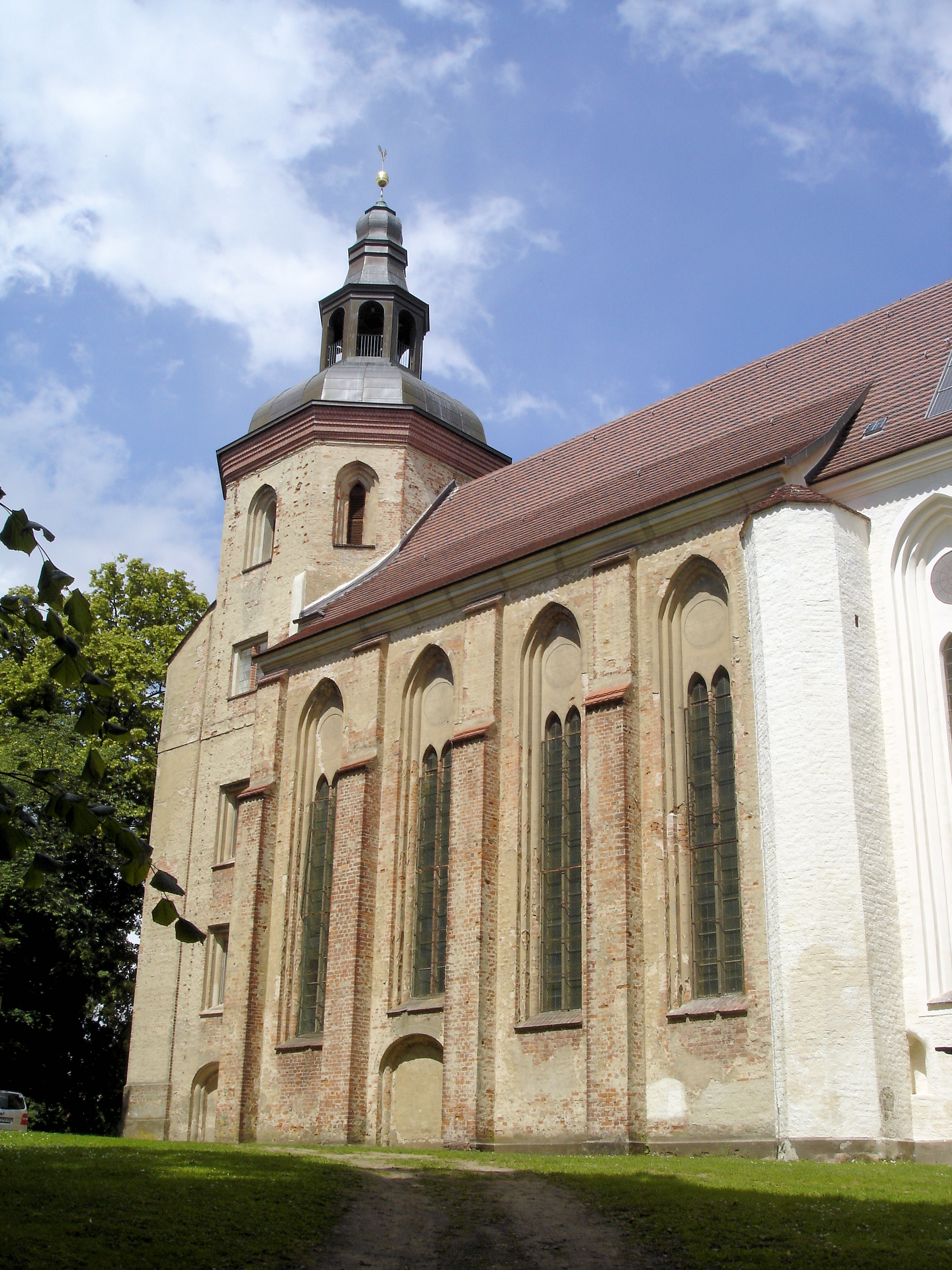 Church in Mirow, Mecklenburg, Germany